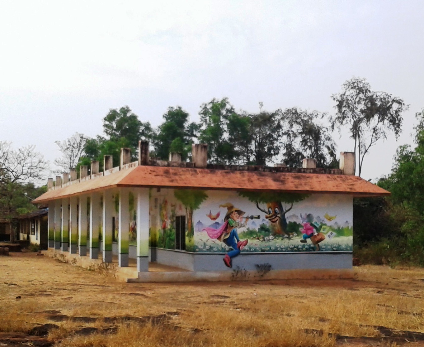 Kasaragod - Kanhangad road, Kasaragod District, Kerala state, India.